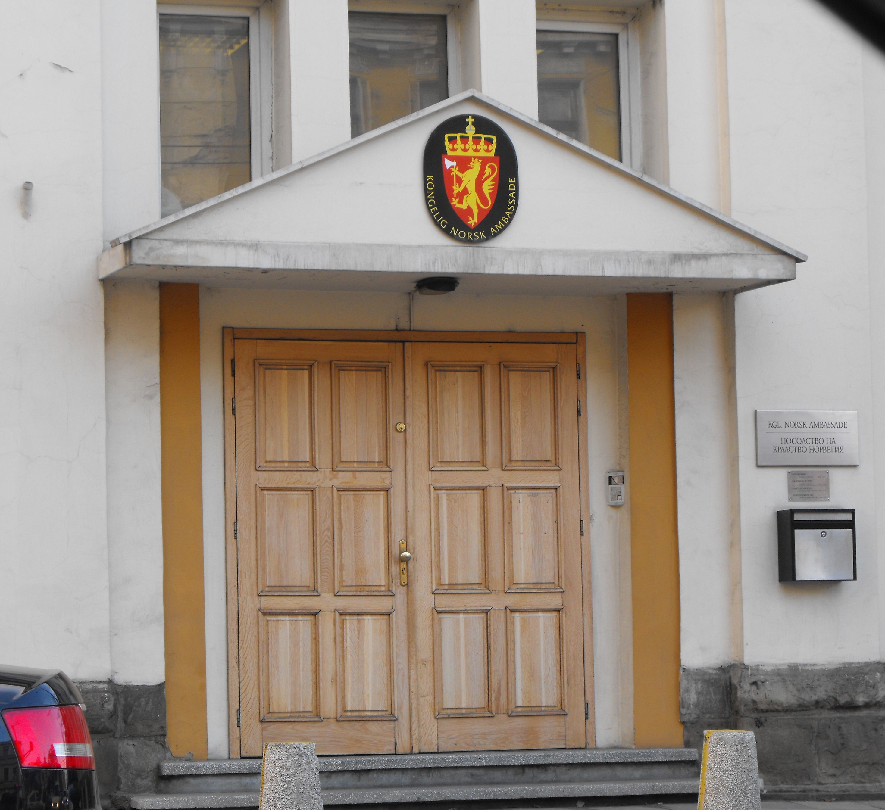 Embassy Kingdom of Norway, Sofia, Bulgaria